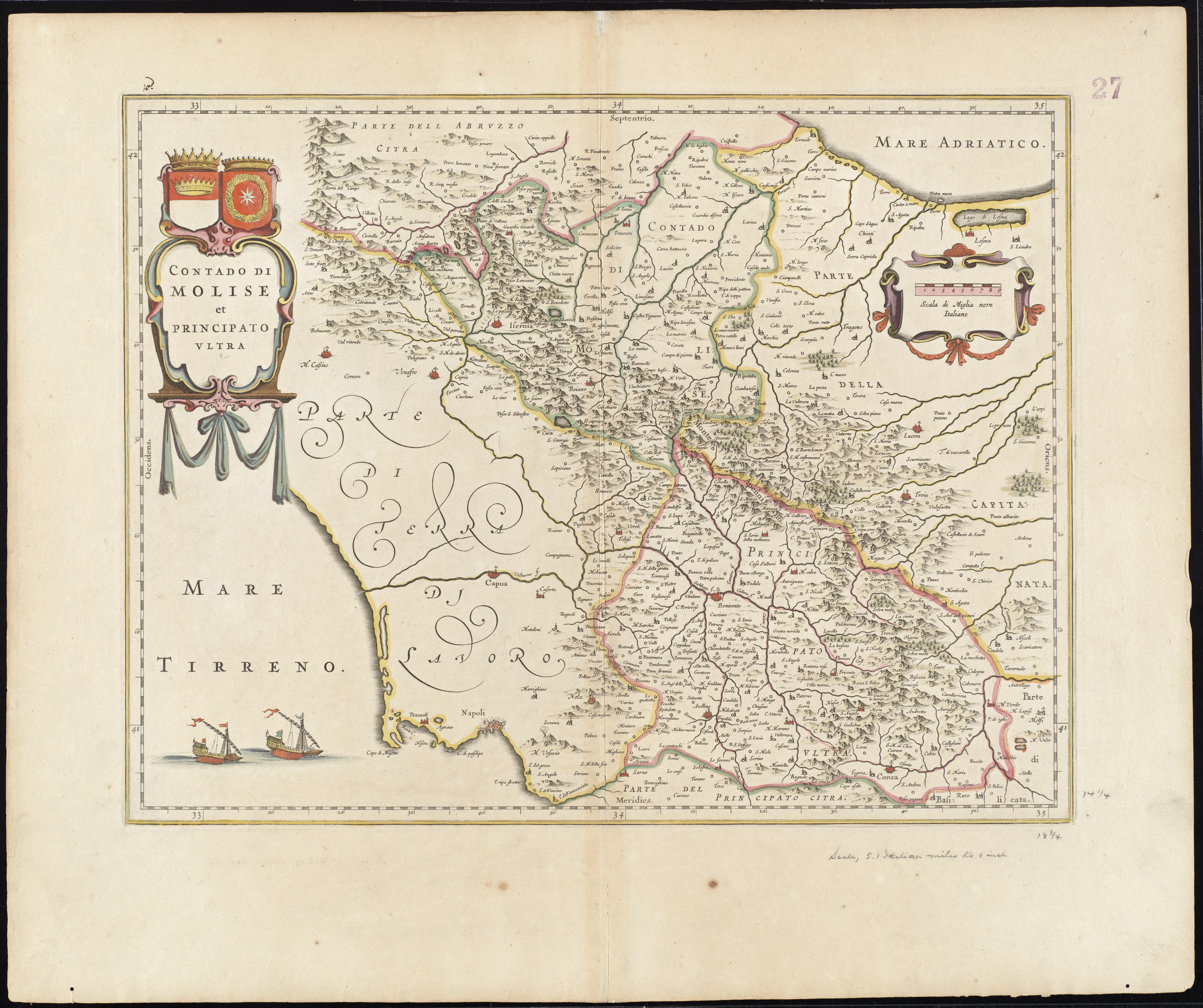 Zoom into this map at . Author: Blaeu, Joan Publisher: Blaeu, Joan Date: 1640 Location: Abruzzo (Italy), Lazio (Italy), Molise (Italy) Dimensions: 37 x 48 cm. Scale: [ca. 1:370,000] Call Number: G1015 .C65 1630